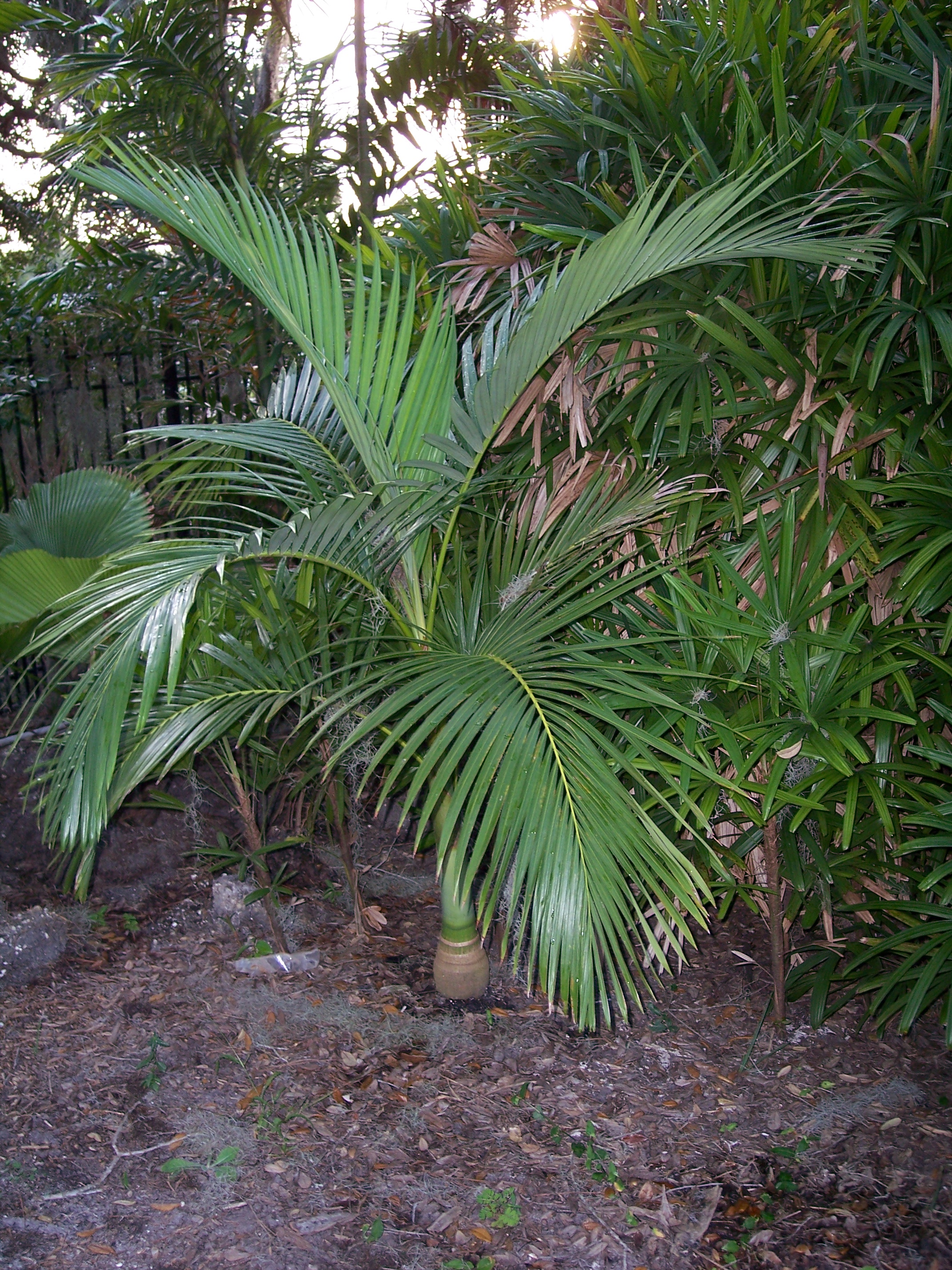 Young Alexander Palm Archontophoenix alexandrae - Tampa, Florida